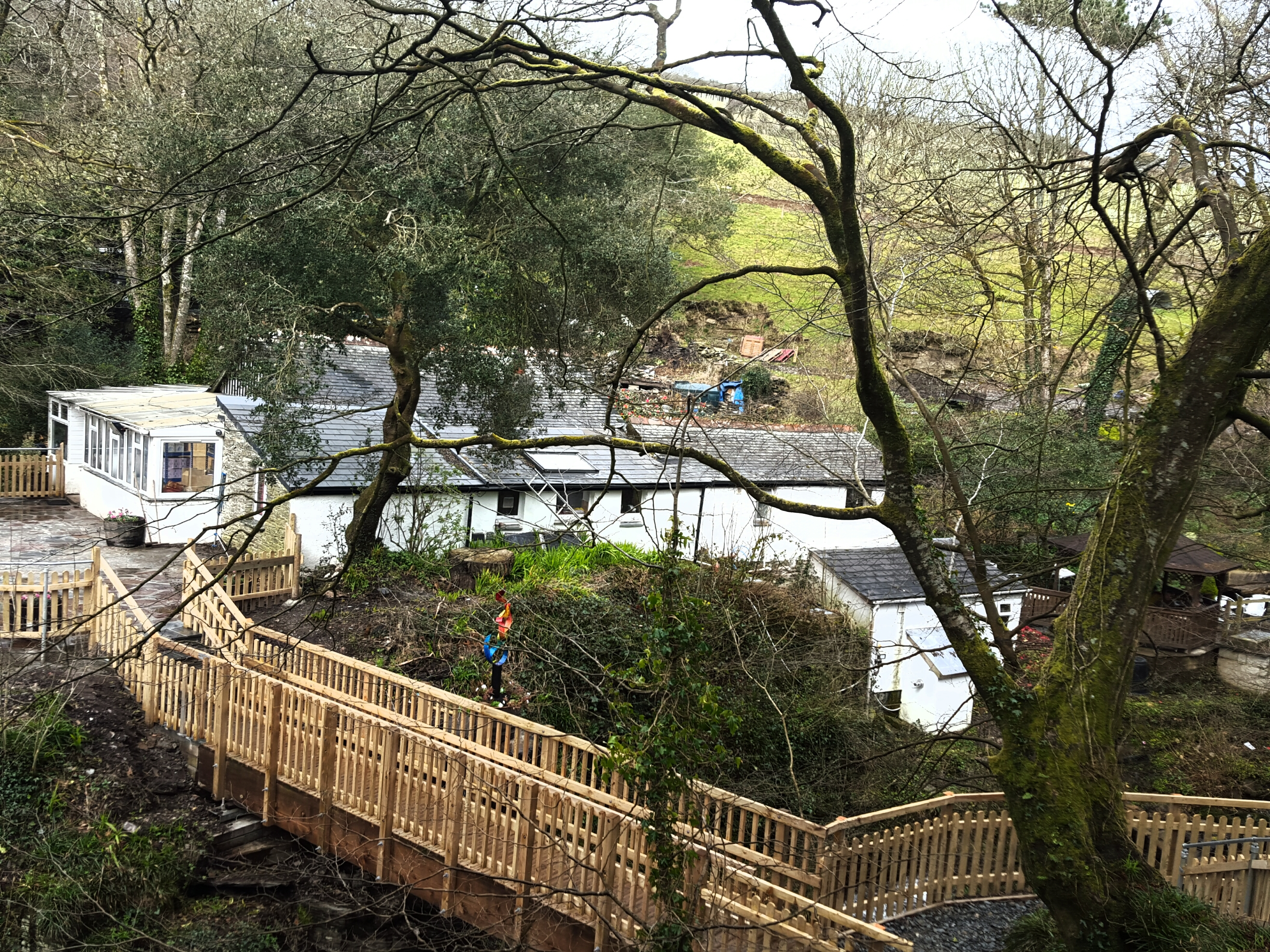 Picture taken from the woodland walk, opened 25 March 2016